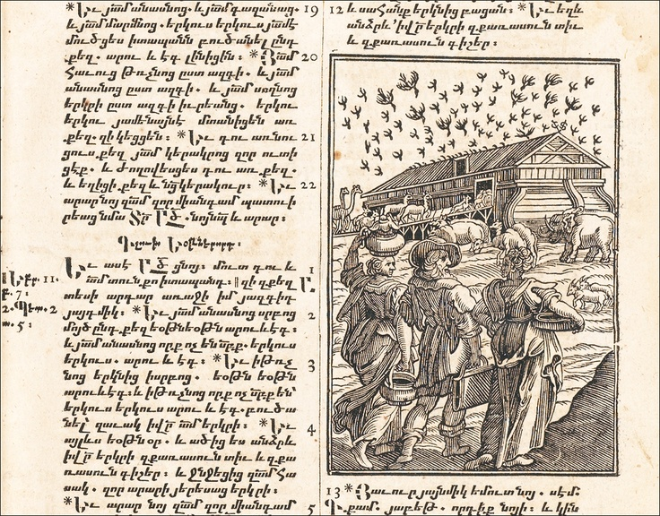 The first Bible printed in the Armenian language, Amsterdam 1666-1668